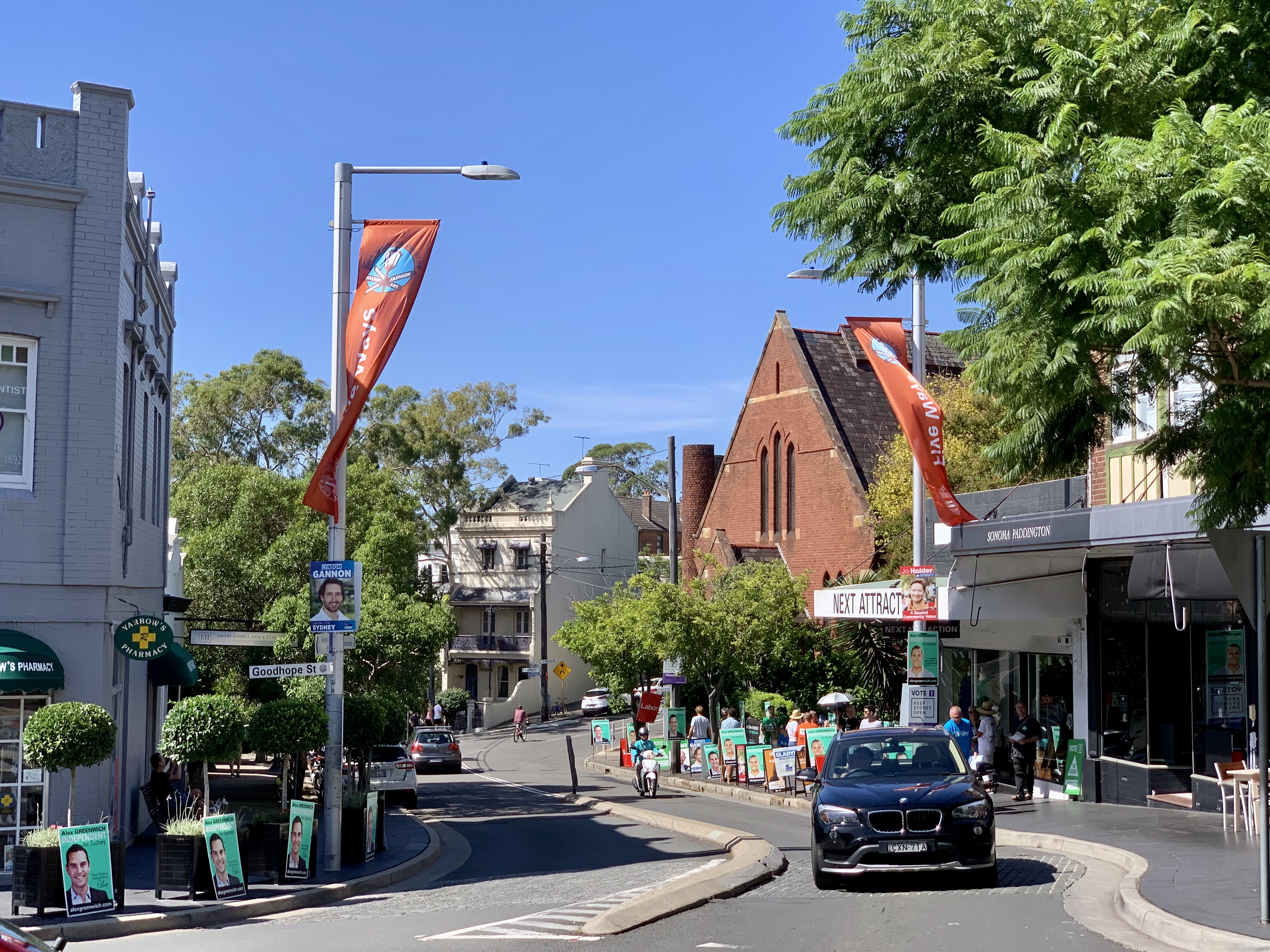 Fiveways, Paddington, New South Wales